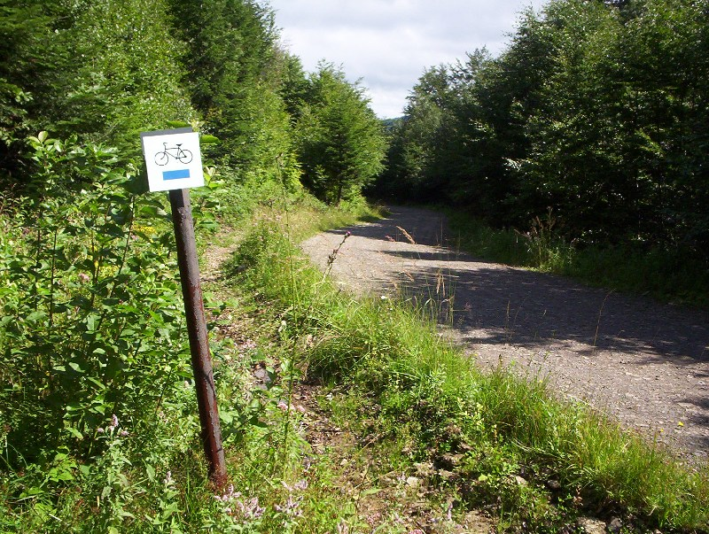 Cycleway sign in Bieszczady Mountains, Poland.